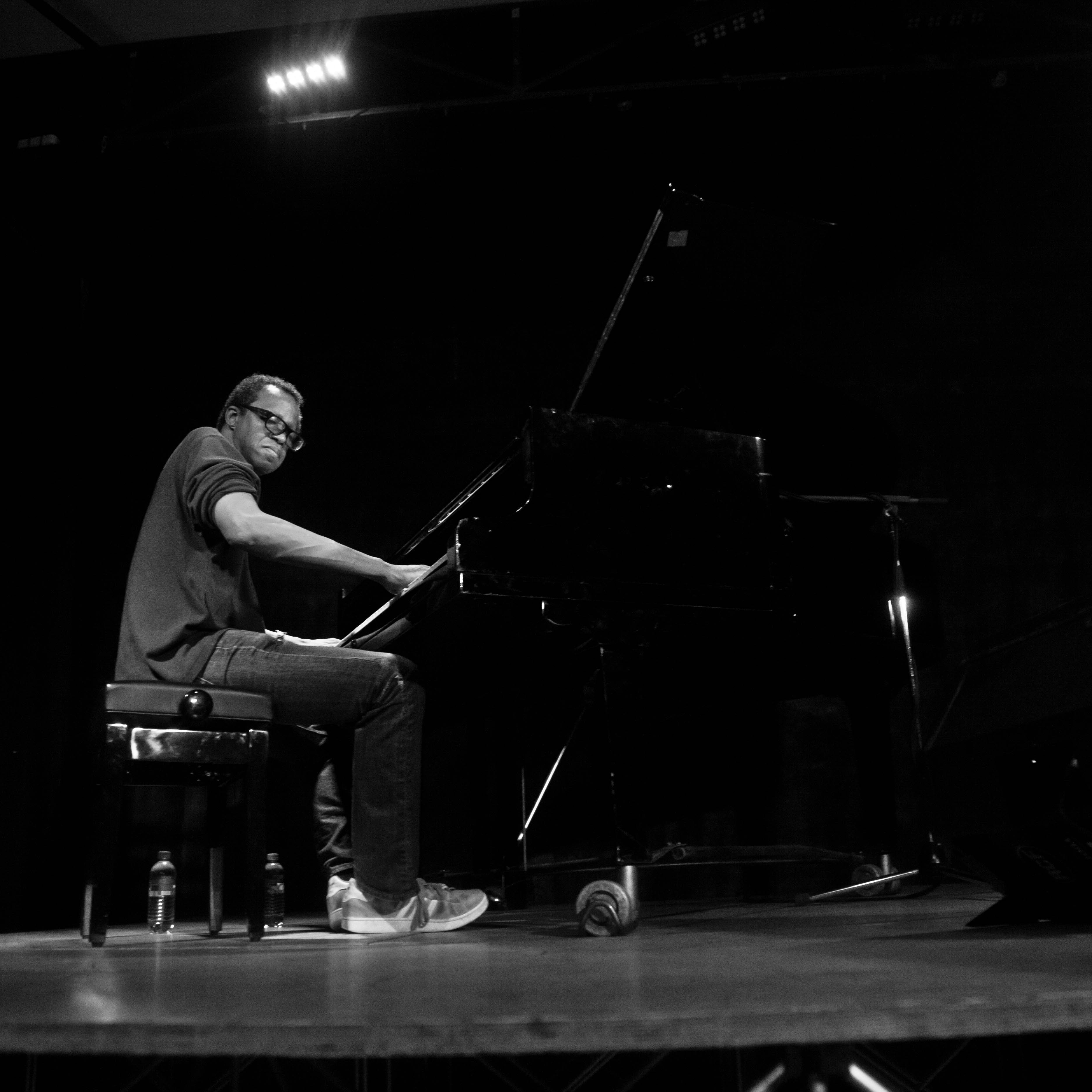 Matthew Shipp and Ivo Perelman in Moscow club "DOM"